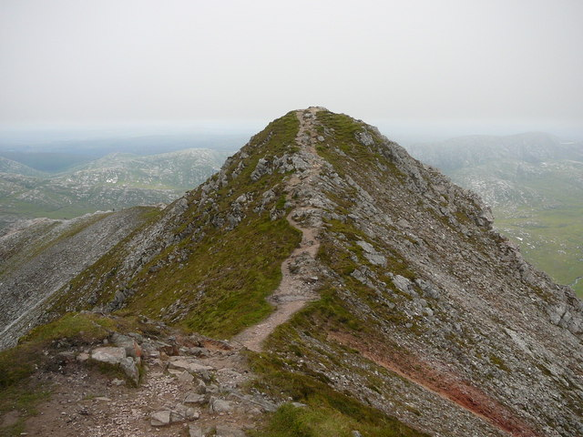 The summit of Errigal consists of two tops, connect by a narrow path. The view looks south east.